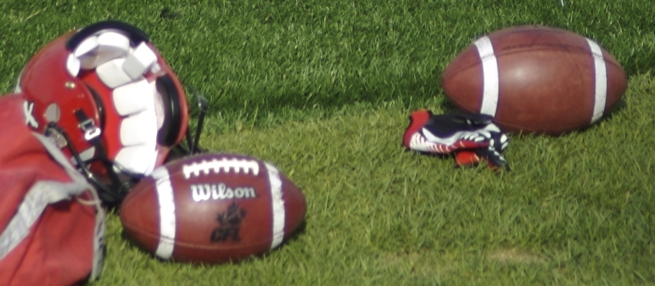 CFL footballs, a helmet, and glove at a team practice.